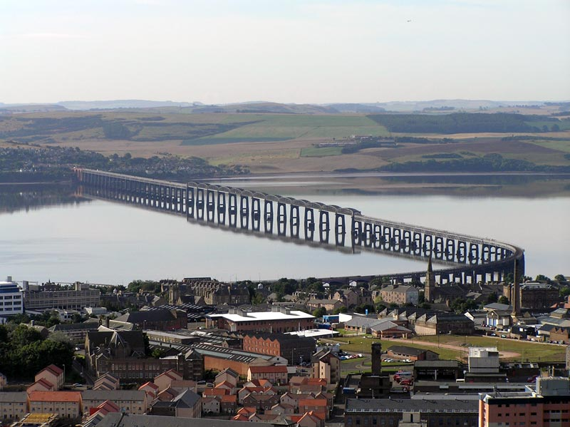 Tay Bridge at Dundee, Scotland from the Dundee Law